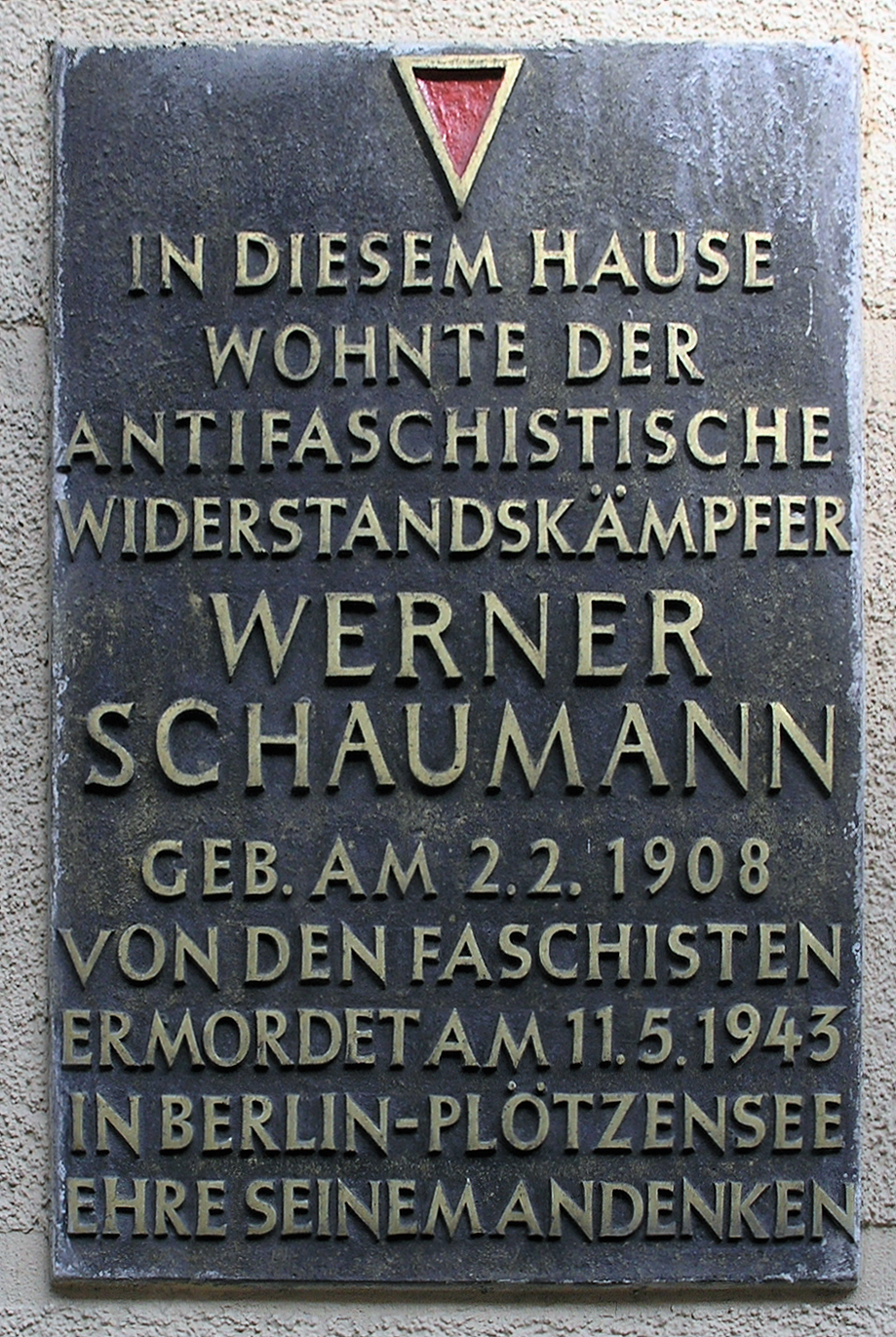 Memorial plaque, Werner Schaumann, Grünberger Straße 85, Berlin-Friedrichshain, Germany Koordinate:52°30′40″N 13°27′42″E / 52.51111°N 13.46167°E